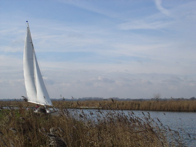 Sailing on the fens.